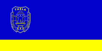 Tuzla city flag